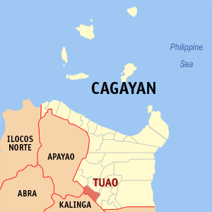 Map of Cagayan showing the location of Tuao